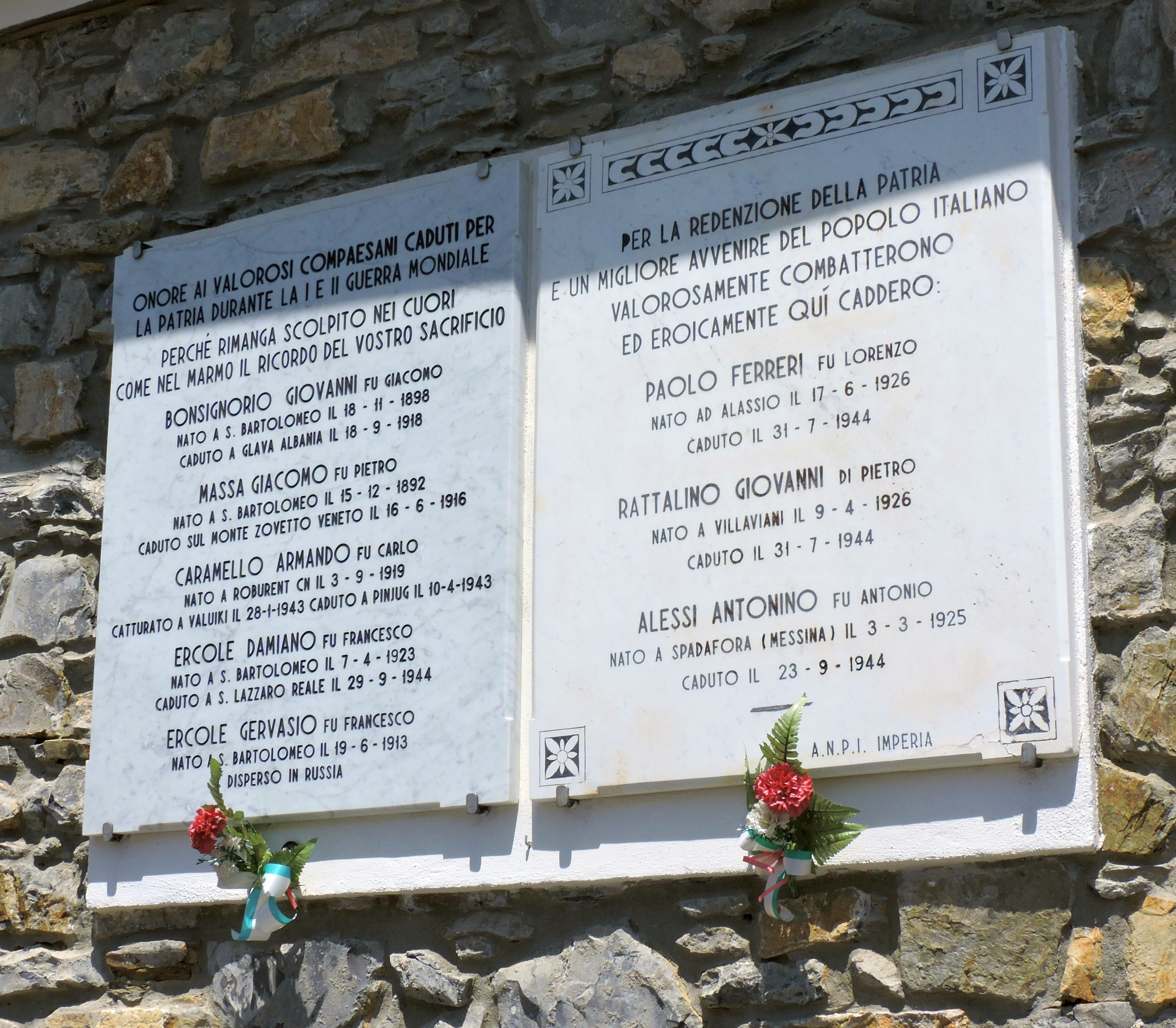 Colle San Bartolomeo (Ligurian Alps, Italy): memorial tablet